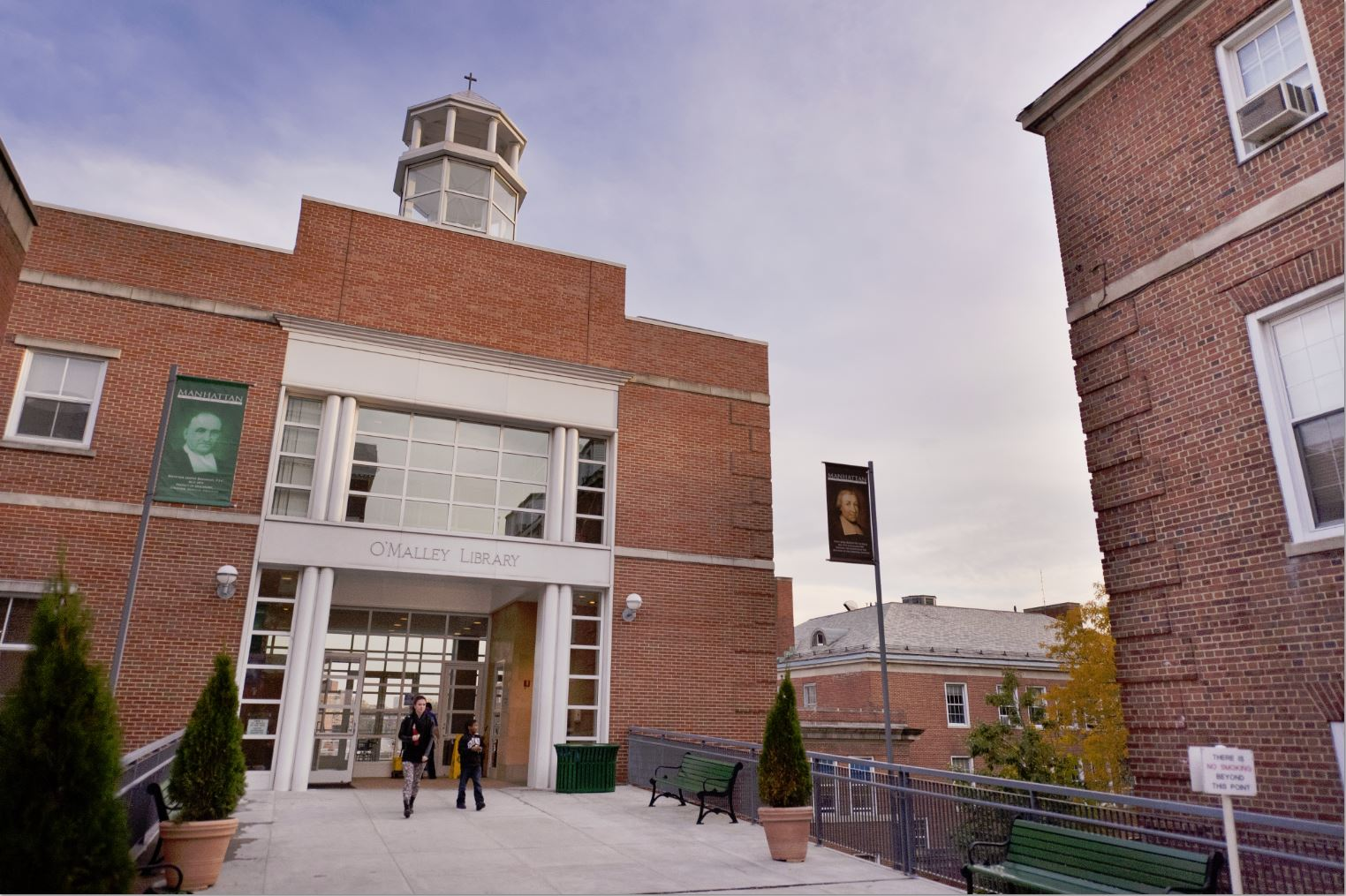 library in 2011